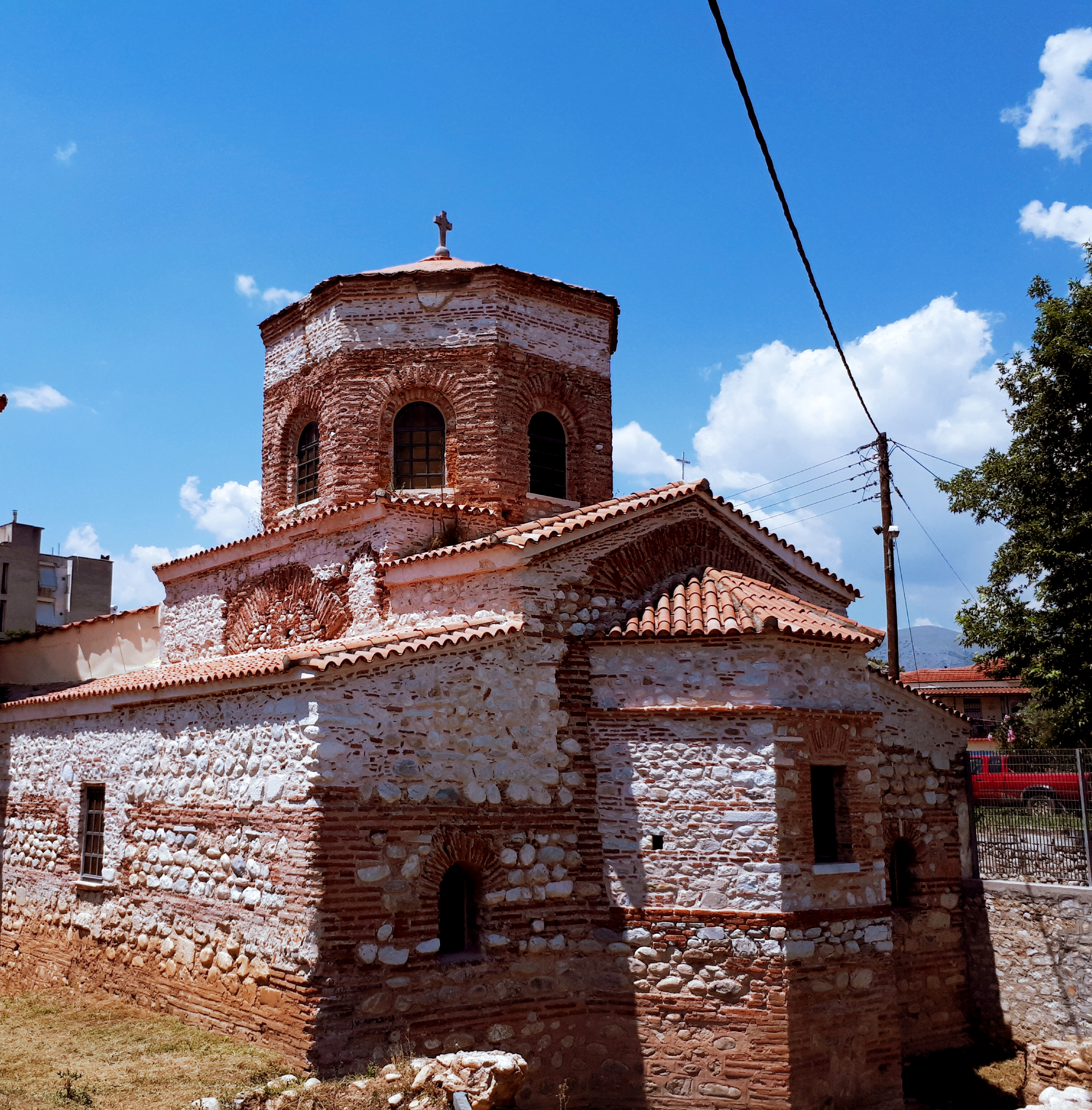 Saint Sophia Church Drama